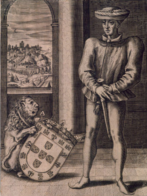 King D. Afonso V of Portugal . Woodcut from the memoirs of the Swabian knight Georg von Ehingen, Itinerarium, das ist historische Beschreibung weiland Herrn Georgen von Ehingen reisen nach der Rittershacft, &tc., published in 1600 in Augsburg (Germany) by Raymond Fugger, printed by Johann Schultes with ten full-page portraits by the artist Dominic Custos ("Dominicus Custodius"). (online). Georg von Ehingen (1428-1508) served in the retinues of various European princes, finally being knighted by Duke Albert VI of Austria in 1452. In 1454-56 he made a pilgrimage to the Holy Land. In 1458-59, after scouring for work throughout Europe, von Ehingen entered the service of Afonso V of Portugal and was sent in command of a reinforcement army to Ceuta. He later entered the service of Henry IV of Castile. Von Ehingen's memoirs, Itinerarium, were written around 1470. They were first published in Augsburg in 1600. However, a manuscript copy (dated c.1550) in the Württembergische Landesbibliothek in Stuttgart has full-color hand-painted portraits that served as the basis of the 1600 woodcuts, that were probably done earlier by (or on the instructions of) Georg von Ehingen himself, and thus are probably a reasonably accurate likeness of the king.